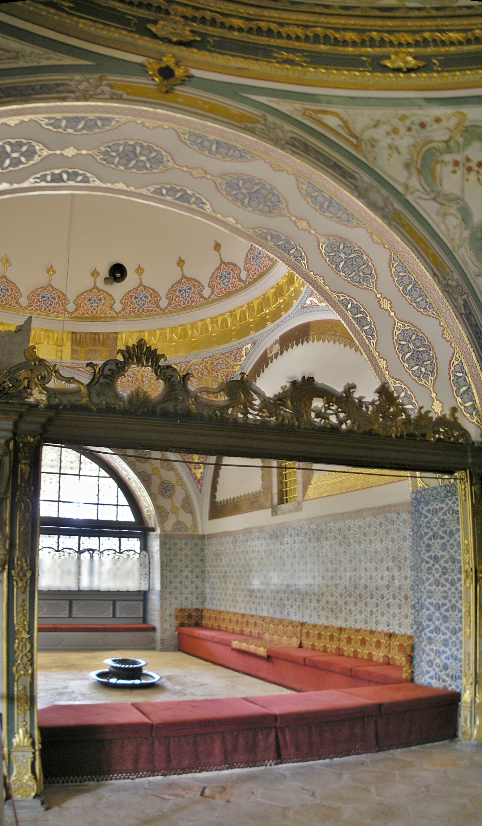 The Imperial Council Hall (Kubbealtı / Divan-ı Hümâyûn) where the veziers met in council with the sultan. The hearth in the middle was to warm the officials. The golden window enabled the sultan or the valide sultan to eavesdrop into the conversation without being noticed.